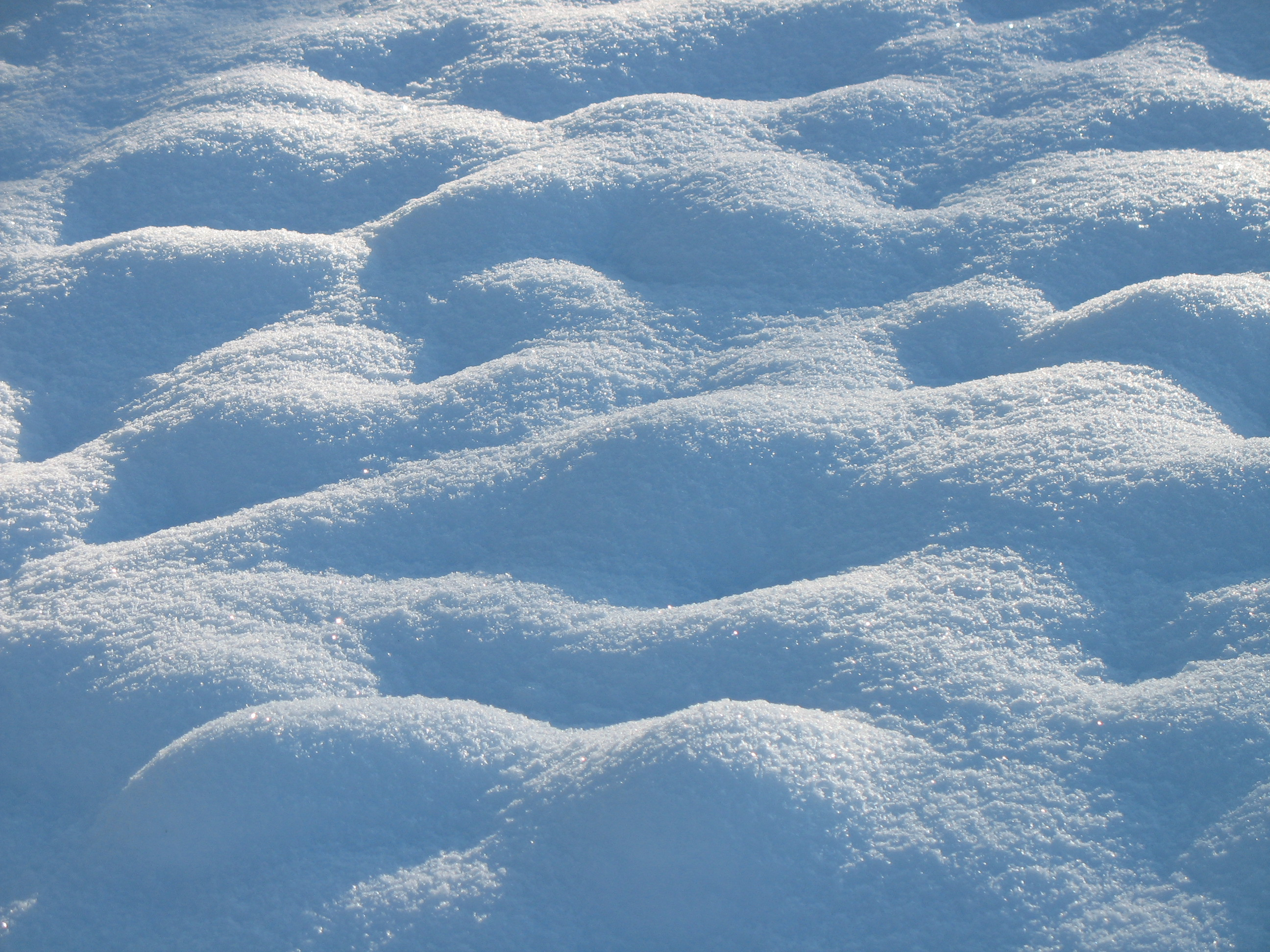 Field with snow.